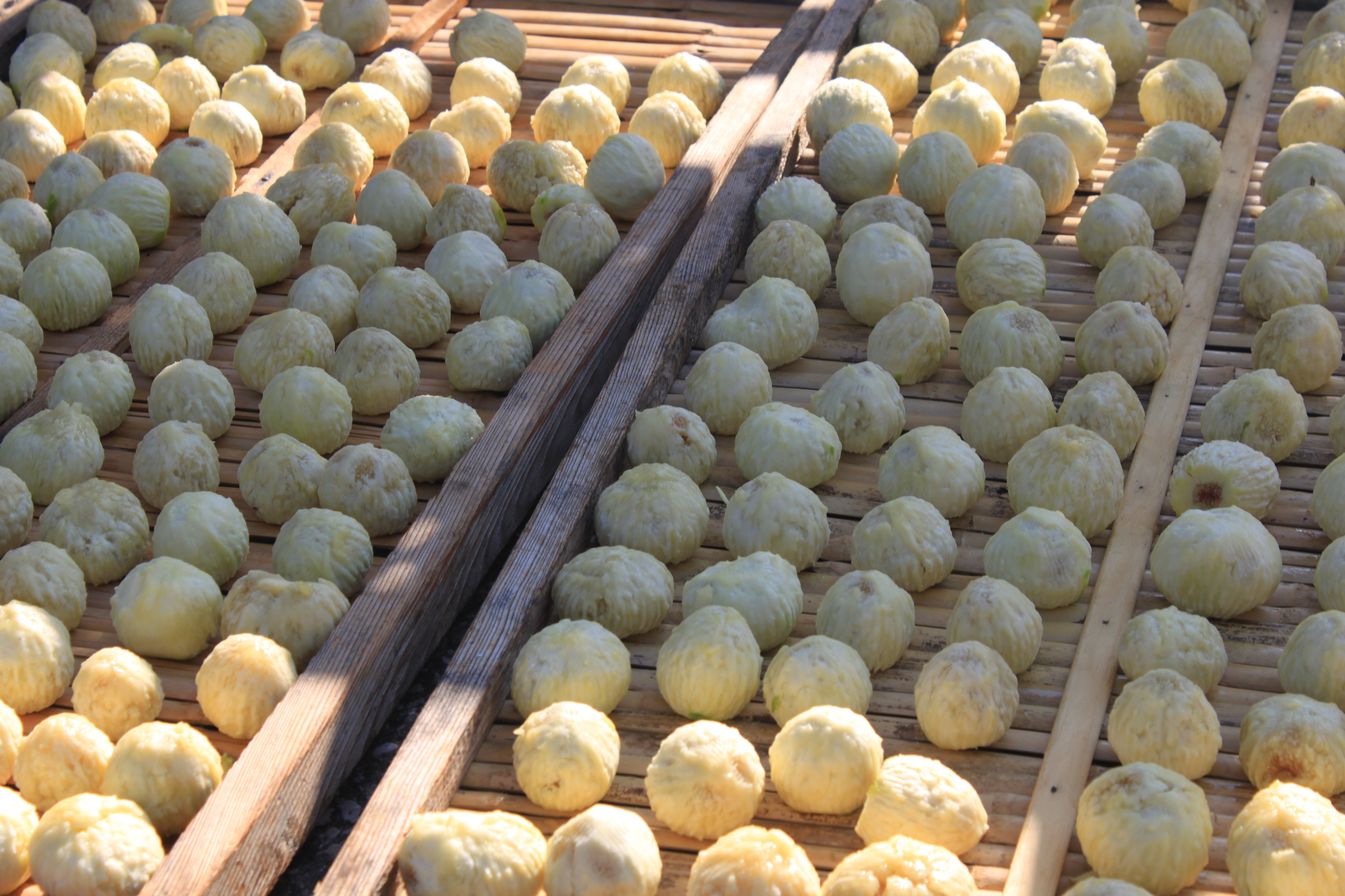 Figs of Cilento (peeled) drying in the sun, province of Salerno – Italy.